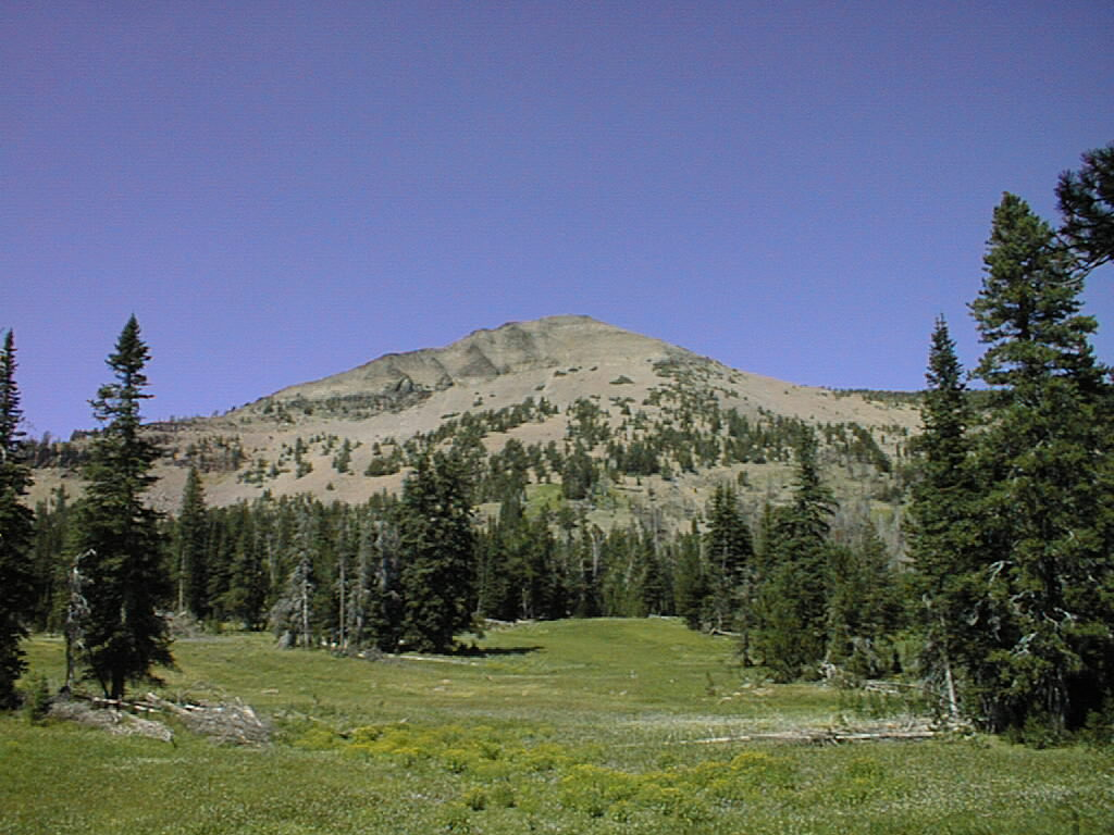 Red Basin at Strawberry Mountain